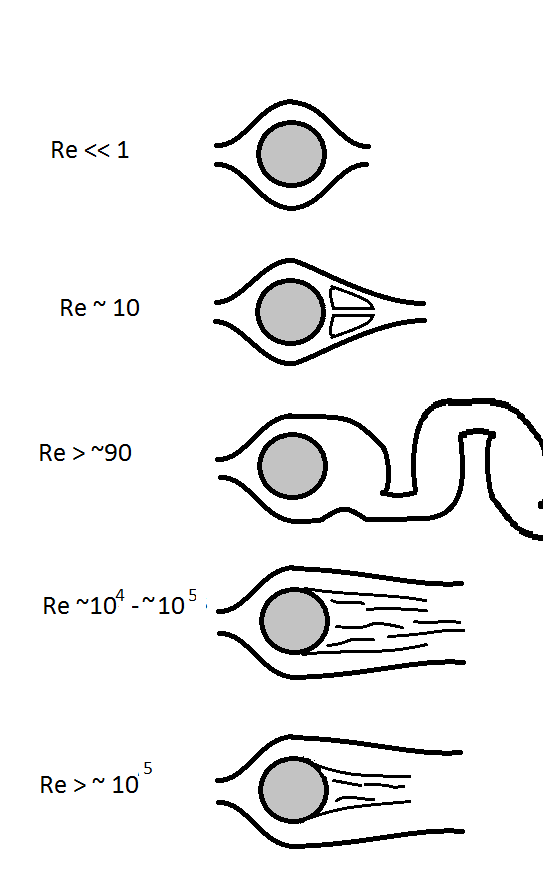 common qualitative behaviors of fluid flow over a cylinder